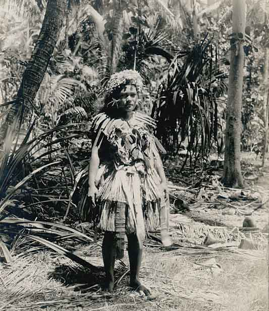 Woman on FunafutiLëtzebuergesch: Fra op Funafuti, fotograféiert am Joer 1900 vum Harry Clifford Fassett